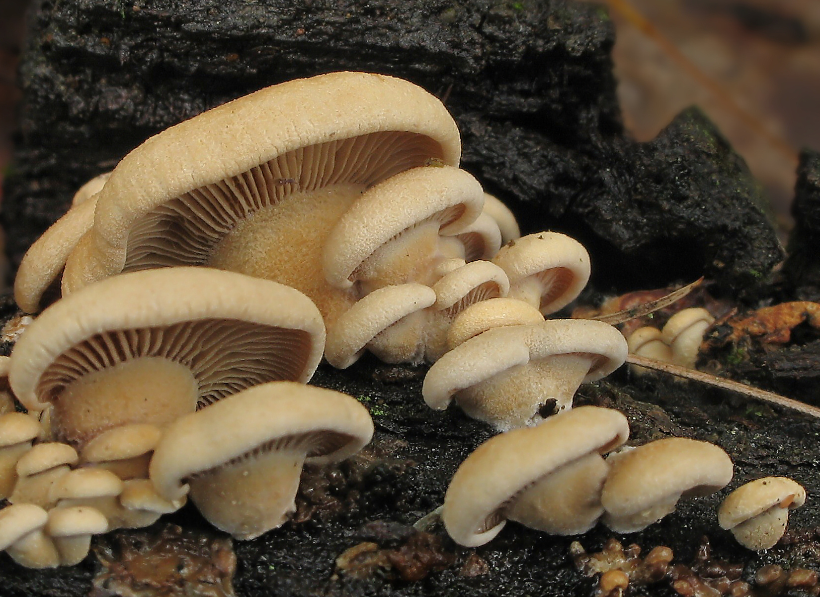 Panellus stipticus (Bull.) P. Karst. Image location: Aporo, Michoacan, Mexico Growing on coniferous wood, I forgot to check if it was bioluminescent. Recognized by sight For more information about this, see the observation page at Mushroom Observer.